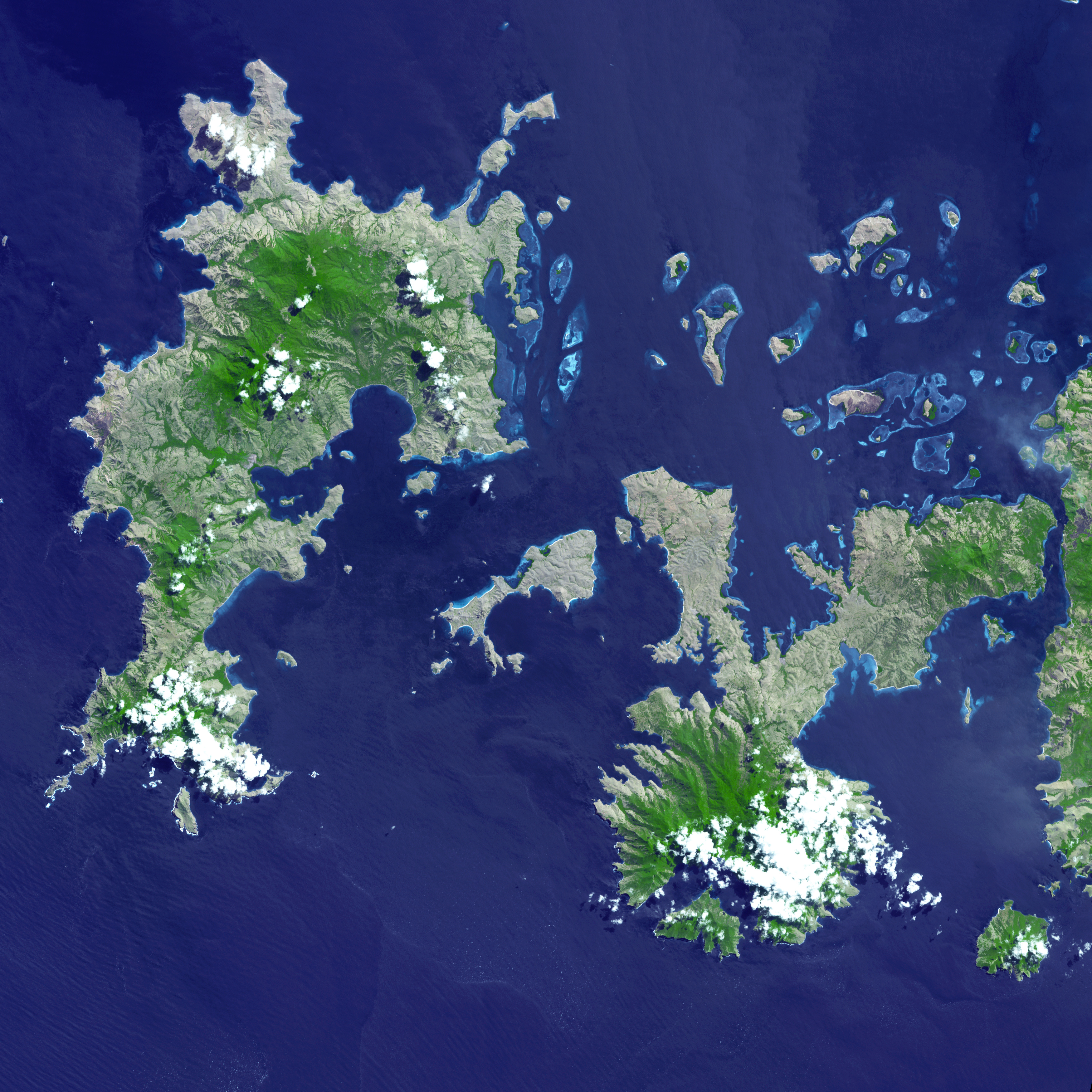 Komodo National Park, Indonesia. The Advanced Spaceborne Thermal Emission and Reflection Radiometer (ASTER) on NASA’s Terra satellite captured this image of the park on July 20, 2000. This image approximates true color. Blue indicates water, gray-beige indicates bare ground, and bright green indicates vegetation.